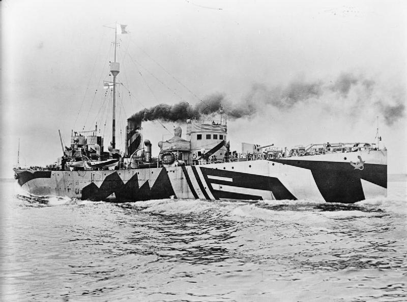 Photograph of British sloop HMS Rocksand in dazzle camouflage.